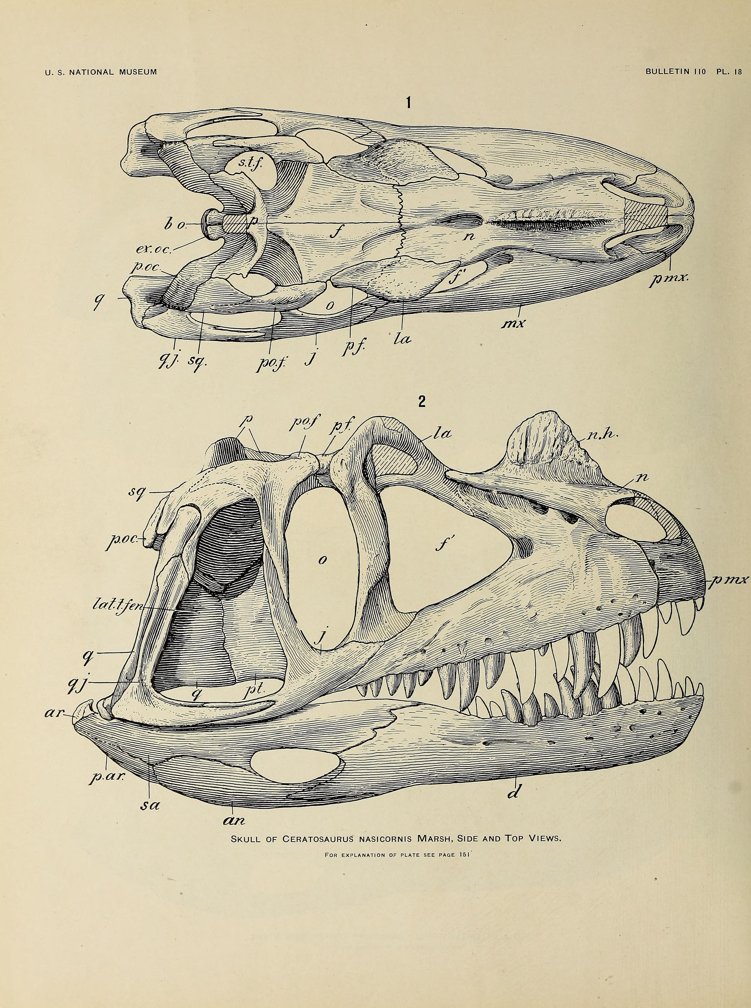 Osteology of the carnivorous Dinosauria in the United States National museum : with special reference to the genera Antrodemus (Allosaurus) and Ceratosaurus /